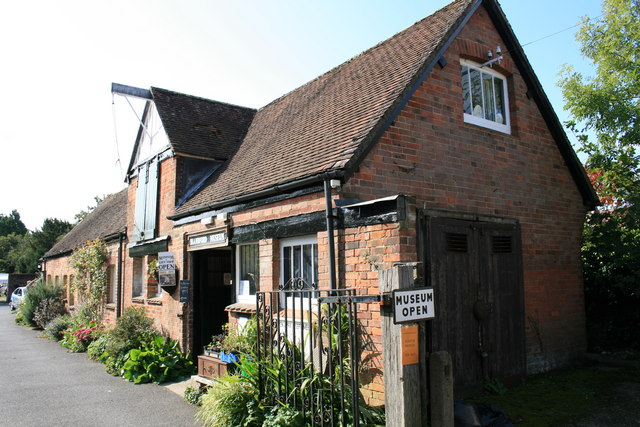 Blandford Forum museum In Beres Yard.